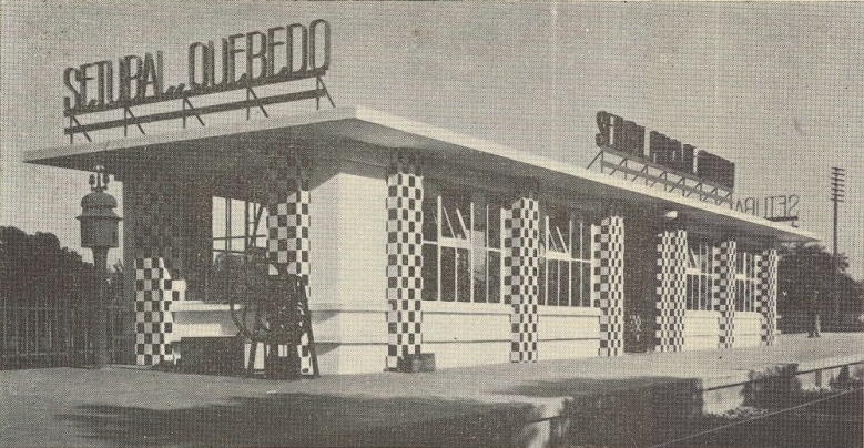 Former building of the Praça do Quebedo halt, part of the Sul Railway, in Portugal. This photograph was published on the Gazeta dos Caminhos de Ferro magazine no. 1475, of the 1st June 1949, and scanned by the Hemeroteca Municipal de Lisboa.